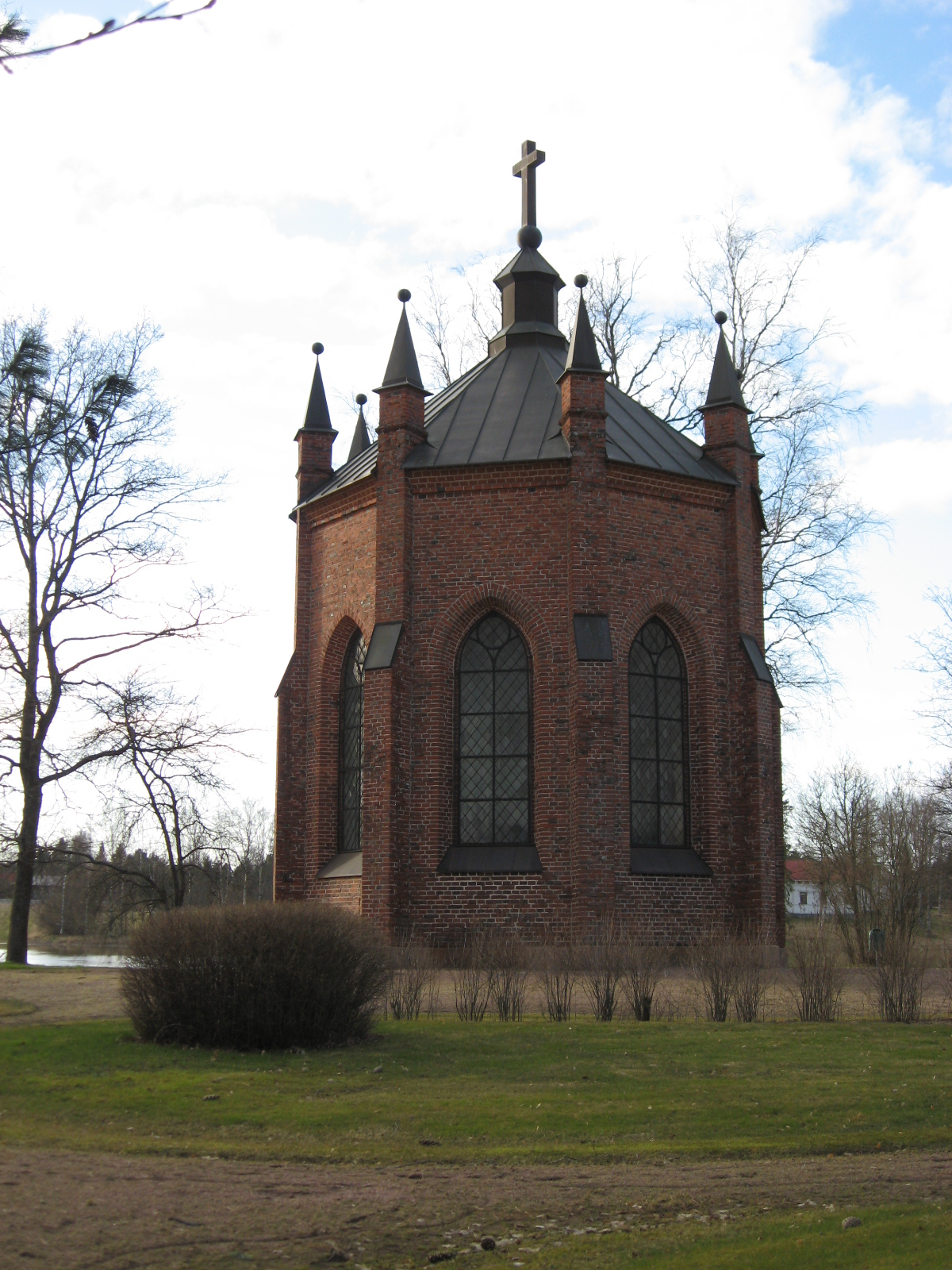 Saint Henry chapel in Kokemäki, Finland